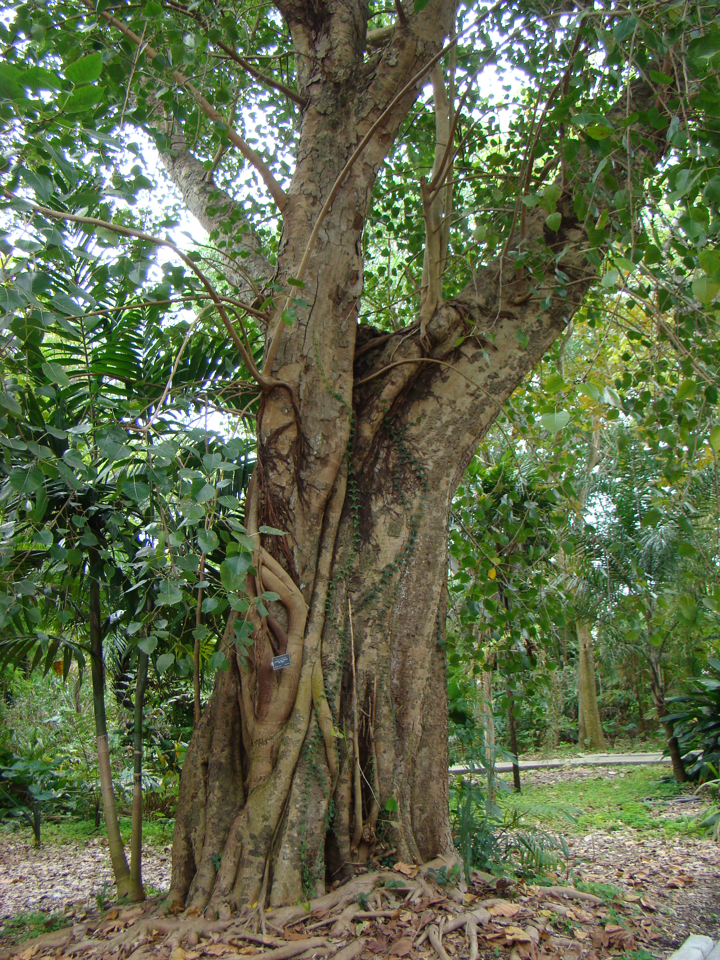 The trunk of the Sacred Fig (Ficus religiosa / Moraceae) tree at the Flamingo Gardens, Davie, Florida.